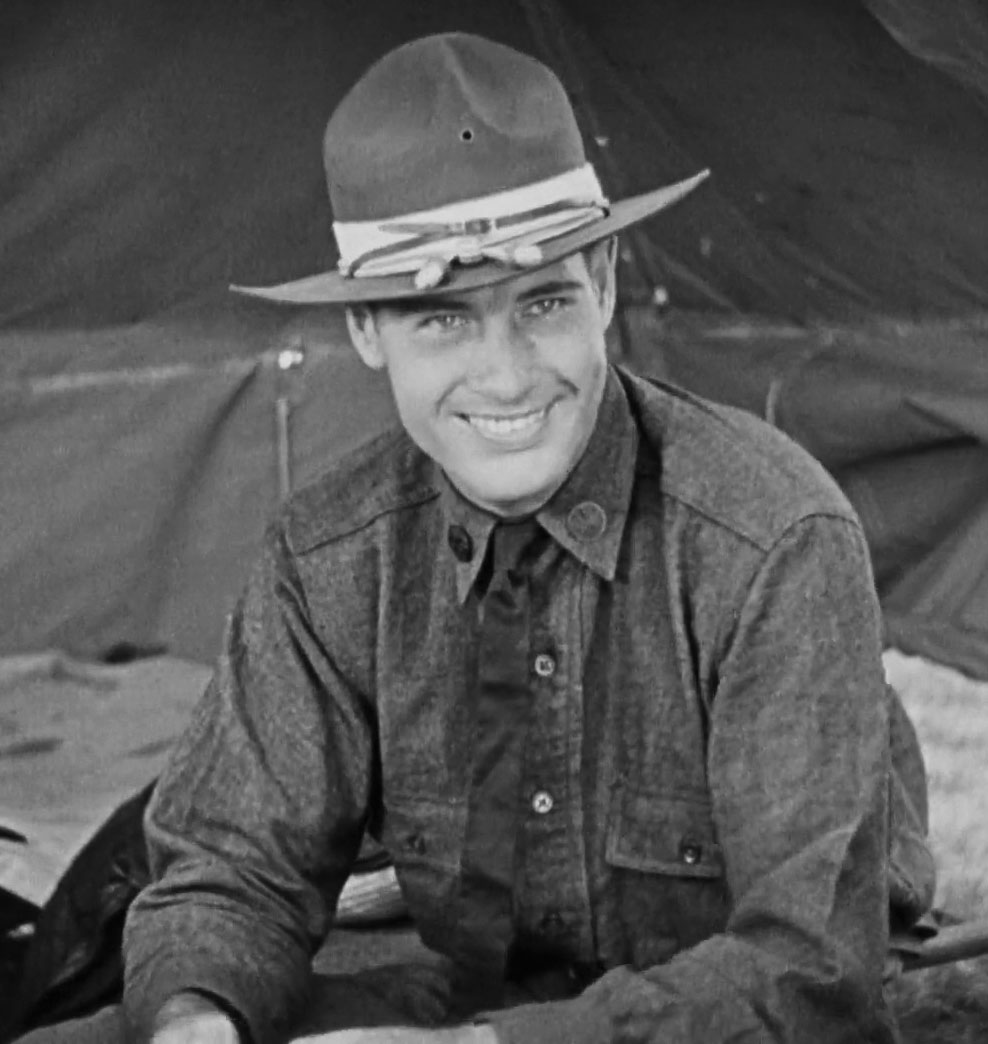 Cropped screenshot of Richard Arlen from the film Wings